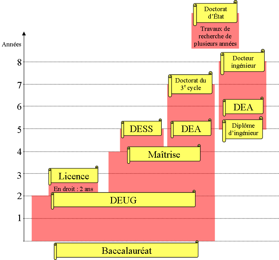 French educational system in universities in september 1975.